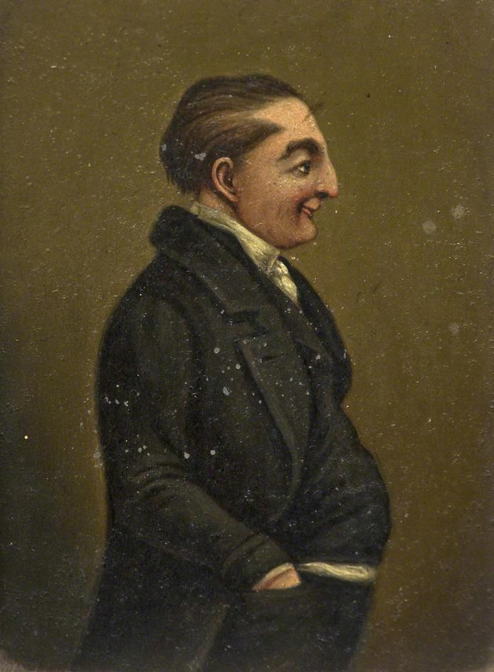 A miniature of Jemmy Wood of Gloucester. Oil on copper (?), 11.7 x 8.6 cm Collection: Gloucester Museums Service Art Collection Miniature, in oils possibly on copper. Half-length portrait of Jemmy Wood in profile as a relatively younger man.